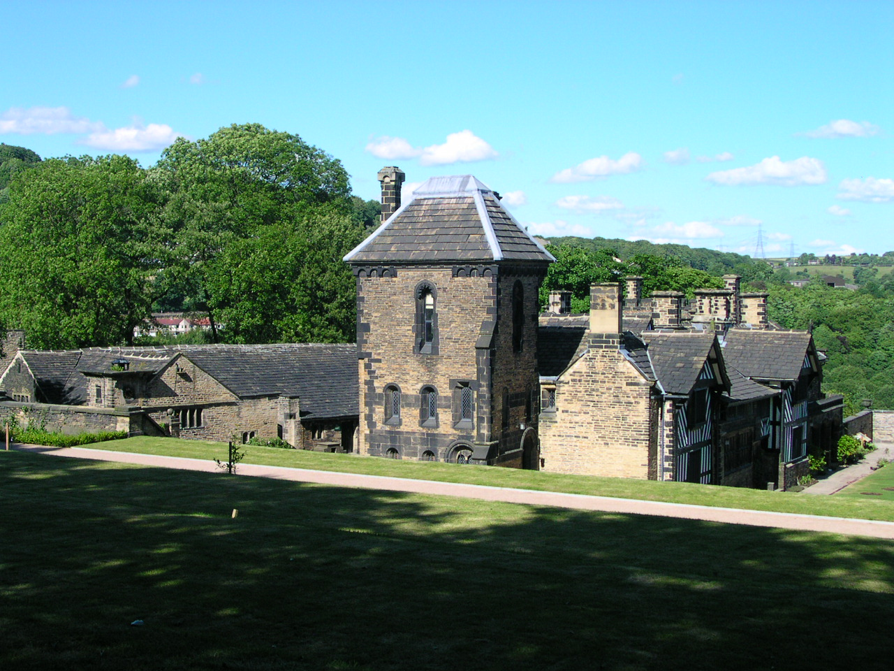 Shibden Hall, Halifax, West Yorkshire, England.